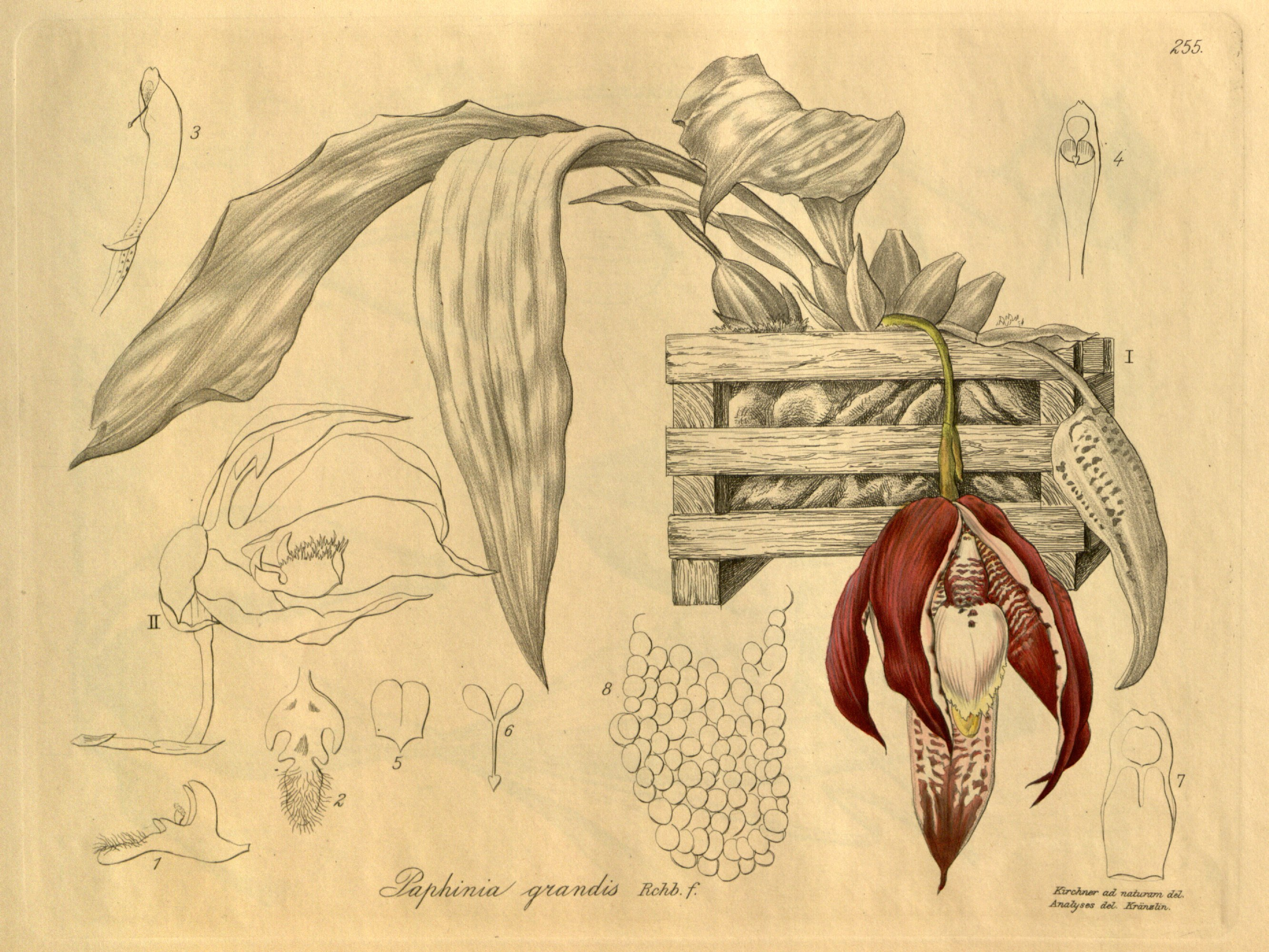 Illustration of Paphinia grandiflora (as syn. Paphinia grandis)